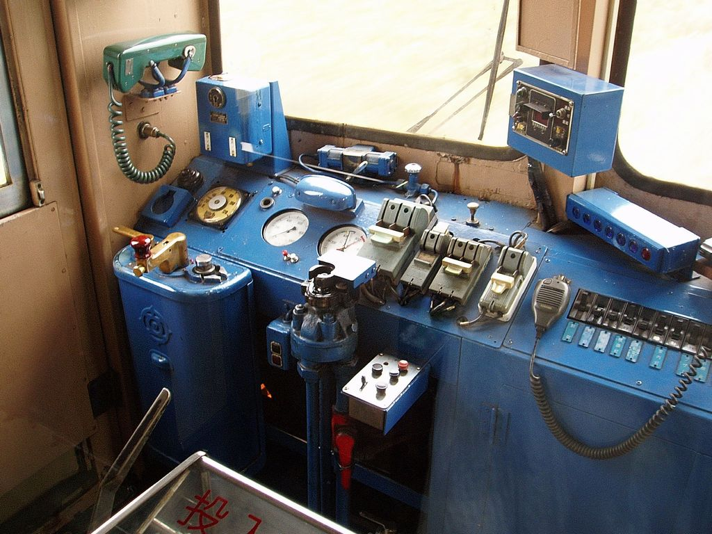 Cockpit of Kashima Railway DMU type Kiha600 No.601